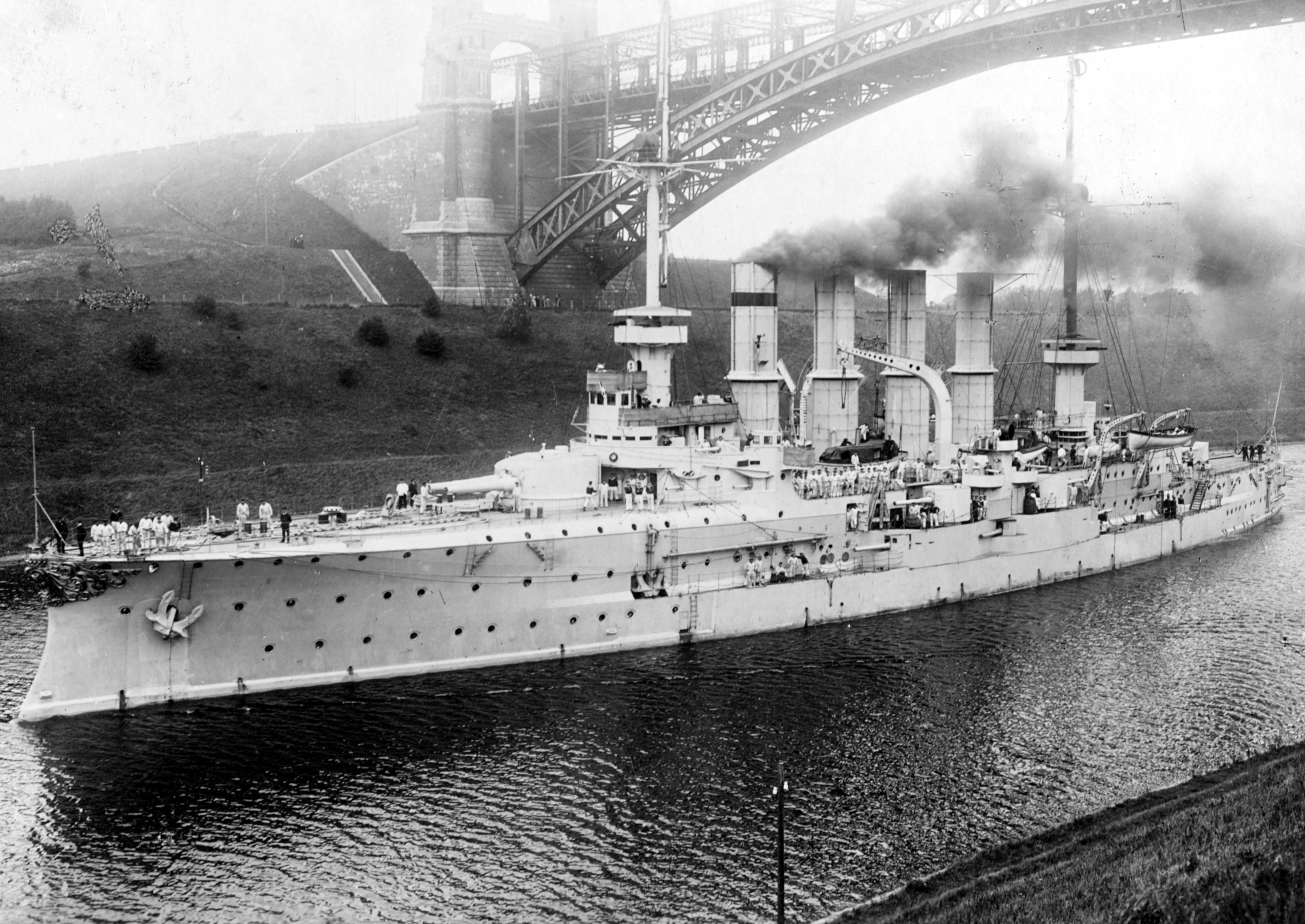 Title: YORCK (German Armored Cruiser, 1905-1914) Caption: Photographed by A. Renard of Kiel, Germany, passing under the Levensau Bridge along the Kiel Canal in a print dated about 1910 (The photograph may date from earlier).